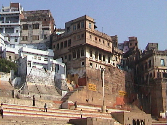 See Varanasi Development Cooperation Handbook/Stories/Responsible Development - Varanasi The Varanasi Heritage Dossier Kautilya Society Play media Vrinda Dar - How we got involved in heritage protection of Varanasi